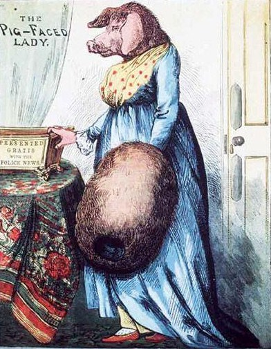 The Pig-faced Lady of Man­chester Square